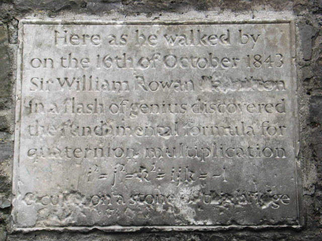 William Rowan Hamilton Plaque Plaque on Broome Bridge on the Royal Canal commemorating William Rowan Hamilton's discovery. The plaque reads: Here as he walked by on the 16th of October 1843 Sir William Rowan Hamilton in a flash of genius discovered the fundamental formula for quaternion multiplication i² = j² = k² = ijk = −1 & cut it on a stone of this bridge.